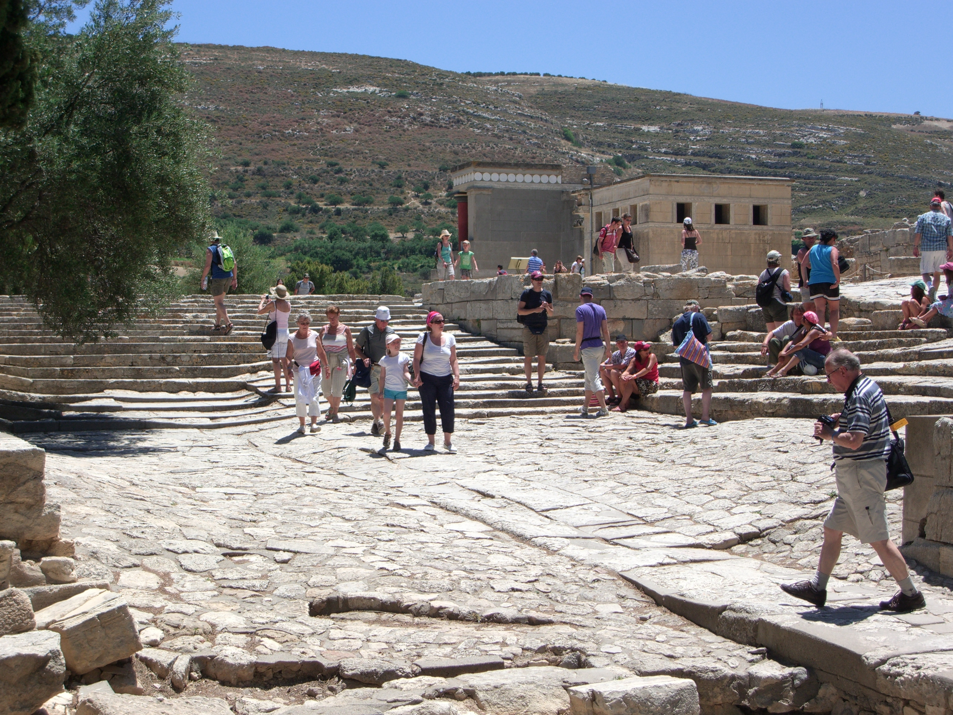 The amphitheatre at Knossos, Crete. It is one of the first stony theatres in human history (1450 BC)